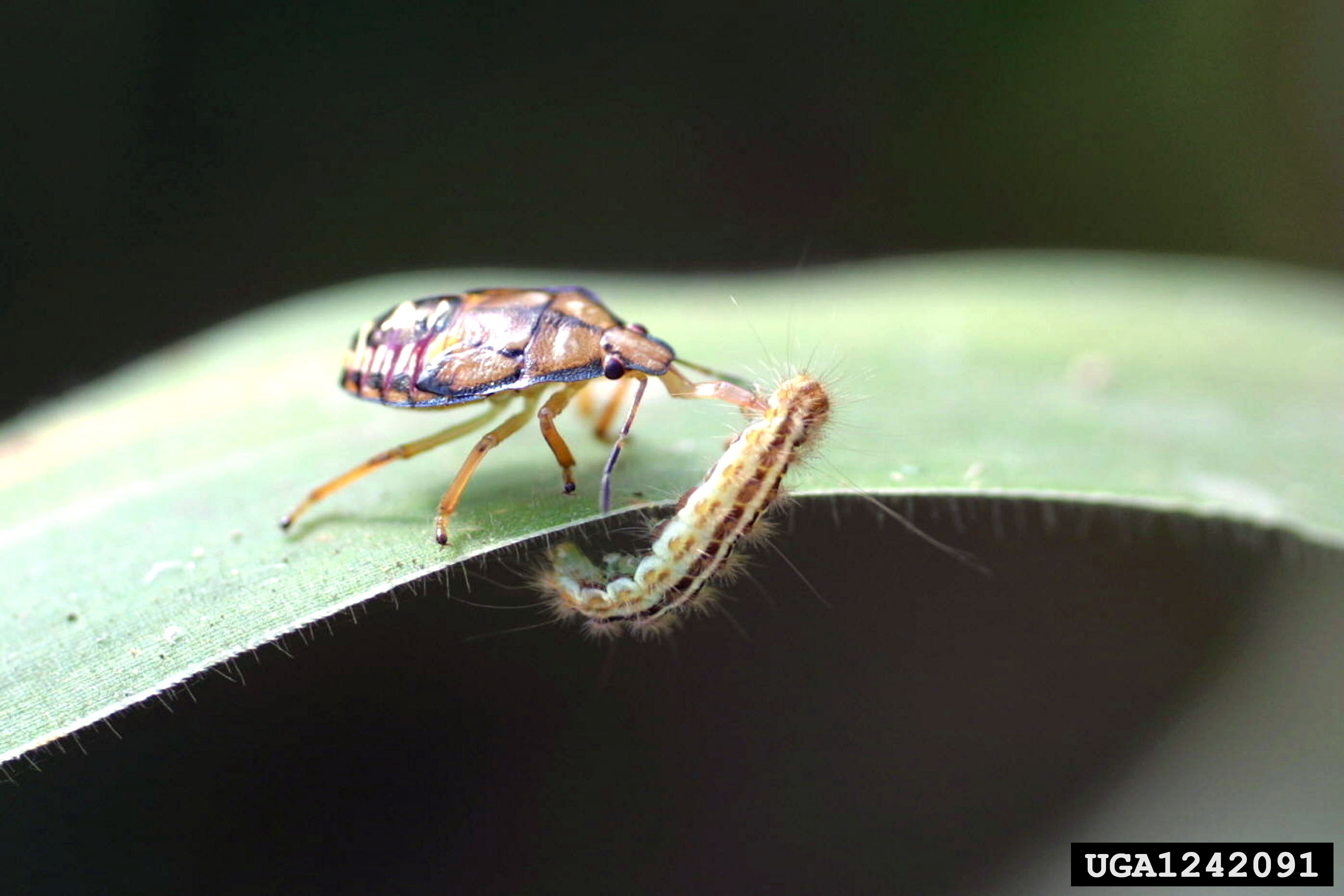 Spined soldier bug (Podisus maculiventris) (nymph); family Pentatomidae